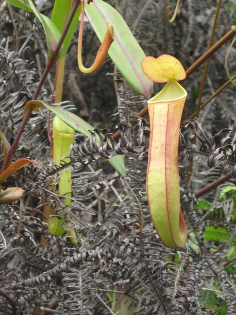 The natural hybrid N. albomarginata × N. gracilis, Penang, Peninsular Malaysia. Picture by David Tan (